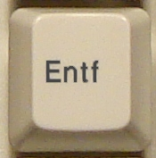 Delete key on german keyboard